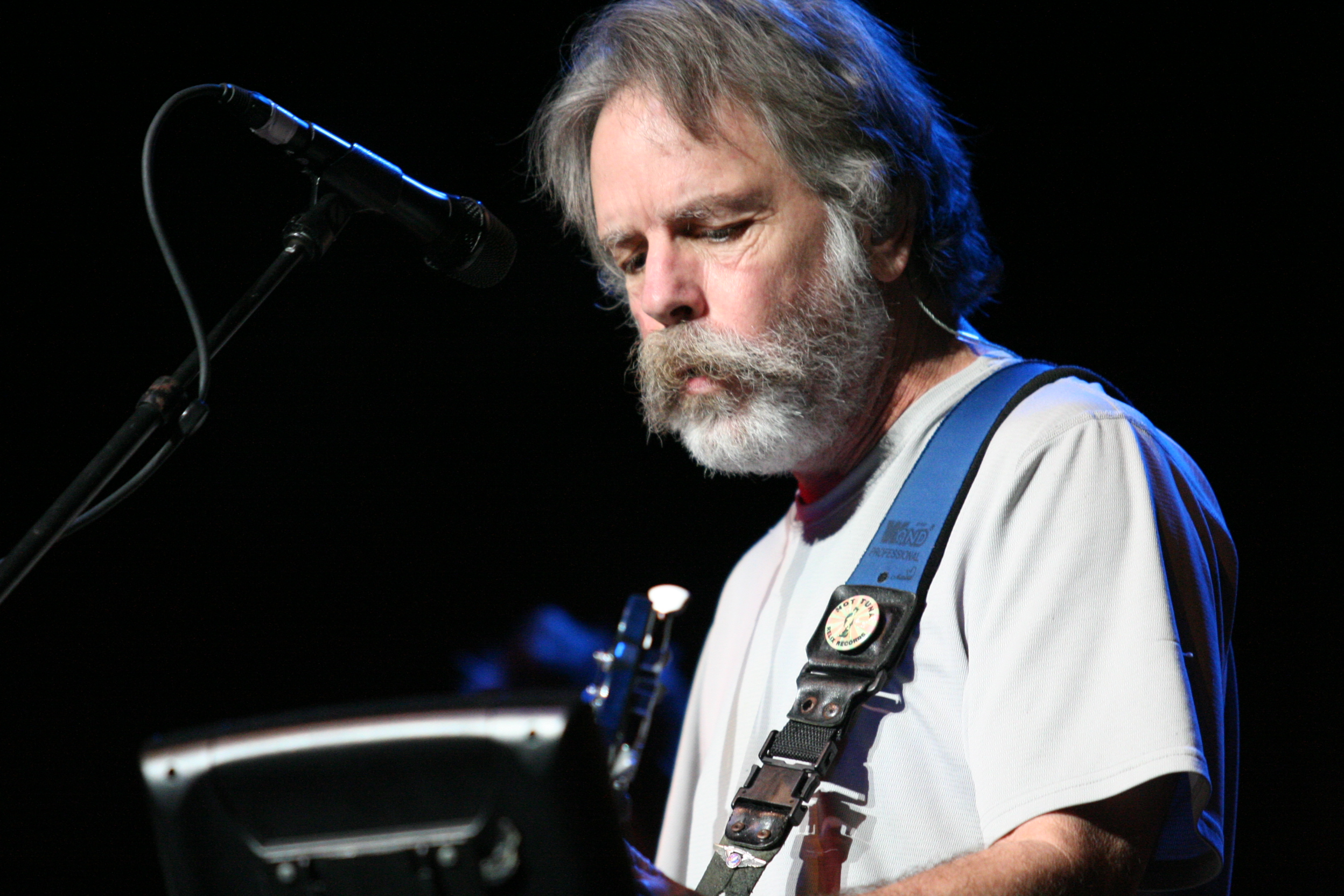 American singer Bob Weir, best known as a founding member of the Grateful Dead.